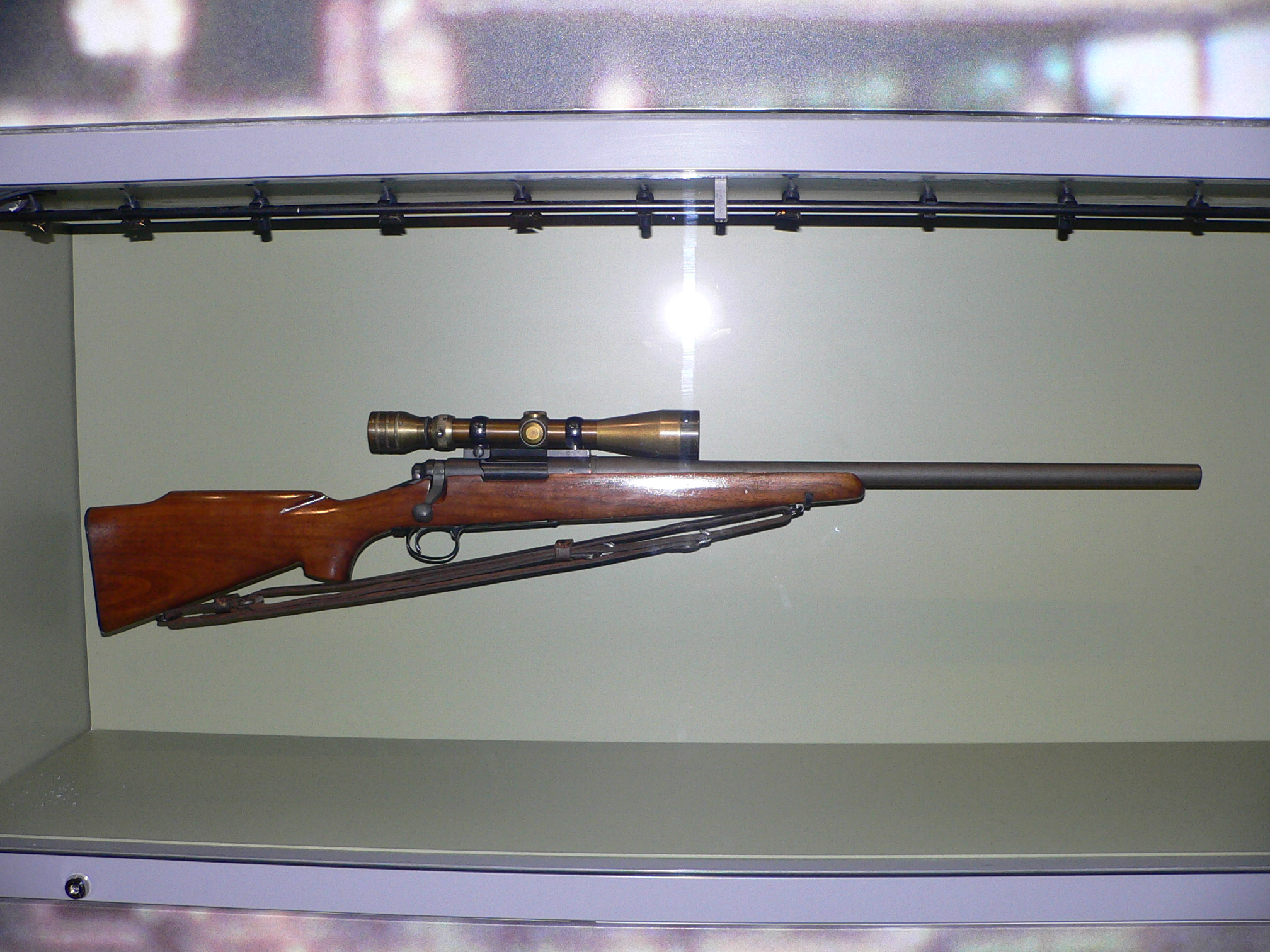 Sniper rifle belonging to Chuck Mawhinney. Picture taken by Mark Pellegrini in the National Museum of the Marine Corps "Discovered in the Weapons Training Battalion, Quantico, retired from service, and refurbished to the configuration used by Lance Corporal Mawhinney during the Vietnam war"